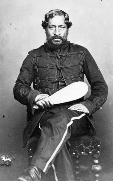 Formal seated portrait photograph of Mete Kingi Te Rangi Paetahi, wearing a uniform and holding a patu, taken circa 1869 by an unidentified photographer.